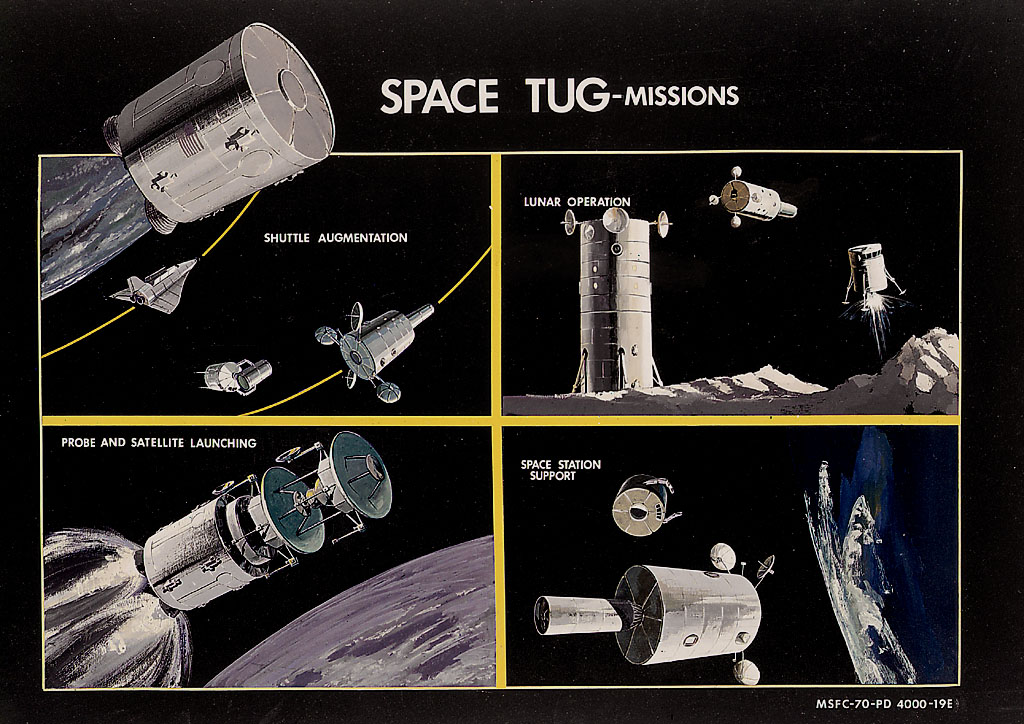 Space Tug Missions Managed by Marshall Space Flight Center, the Space Tug concept was intended to be a reusable multipurpose space vehicle designed to transport payloads to different orbital inclinations. Utilizing mission-specific combinations of its three primary modules (crew, propulsion, and cargo) and a variety of supplementary kits, the Space Tug was capable of numerous space applications. This 1970 artist's concept illustrates several examples of how the Tug's propulsion module could be implemented to support missions such as landing large payloads on a lunar surface, returning crew and cargo to lunar orbit, launching planetary probes from Earth orbit, and space station support.The Space Tug program was cancelled and did not become a reality. Managed by Marshall Space Flight Center, the Space Tug concept was intended to be a reusable multipurpose space vehicle designed to transport payloads to different orbital inclinations. Utilizing mission-specific combinations of its three primary modules (crew, propulsion, and cargo) and a variety of supplementary kits, the Space Tug would have been capable of numerous space applications. The Tug could dock with the Space Shuttle to receive propellants and cargo, as visualized in this 1970 artist's concept. The Space Tug program was cancelled and did not become a reality.